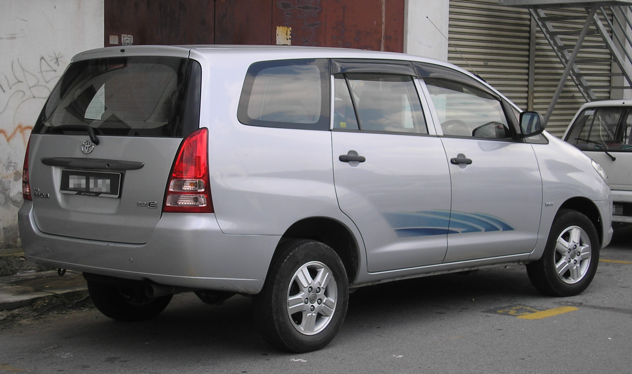 The rear of a first generation Toyota Innova, in Kajang, Selangor, Malaysia.